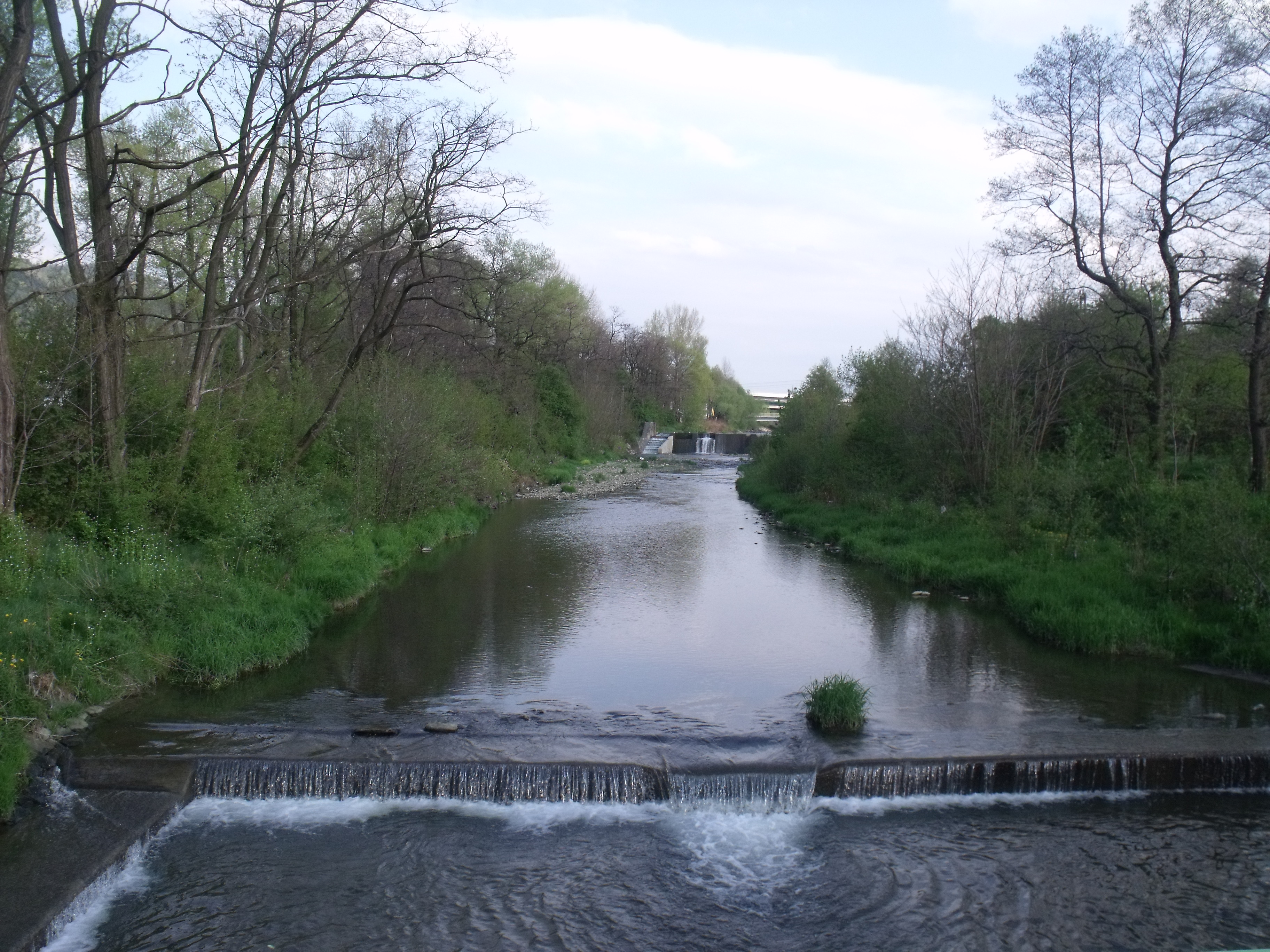 Río Biała